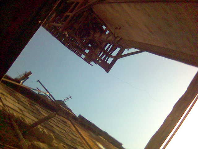 Al Jazari Noria View from base